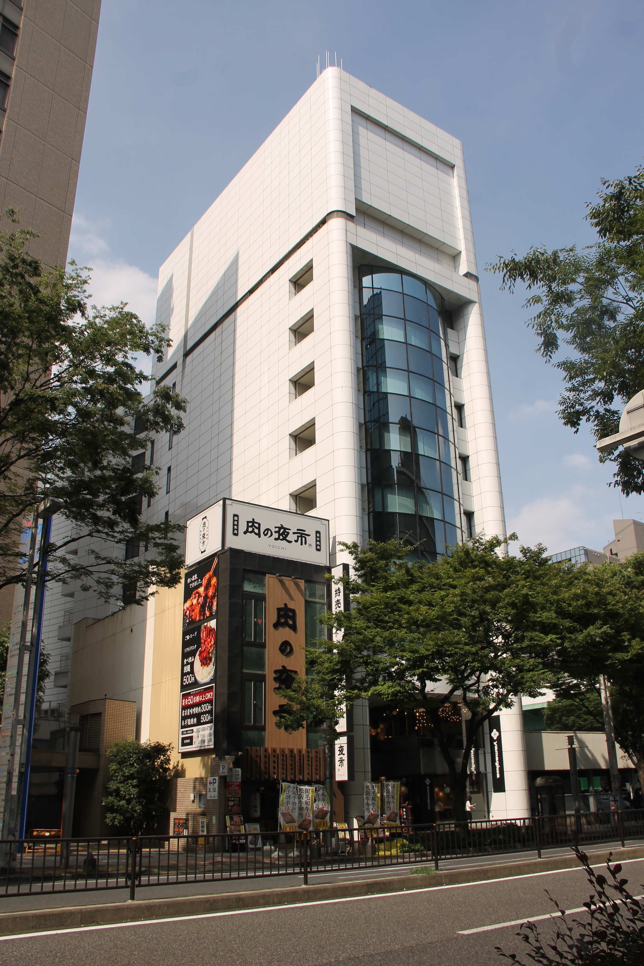 yamagiwa nagoya located in Meikei, Nakamura Ward, Nagoya City, Aichi Prefecture